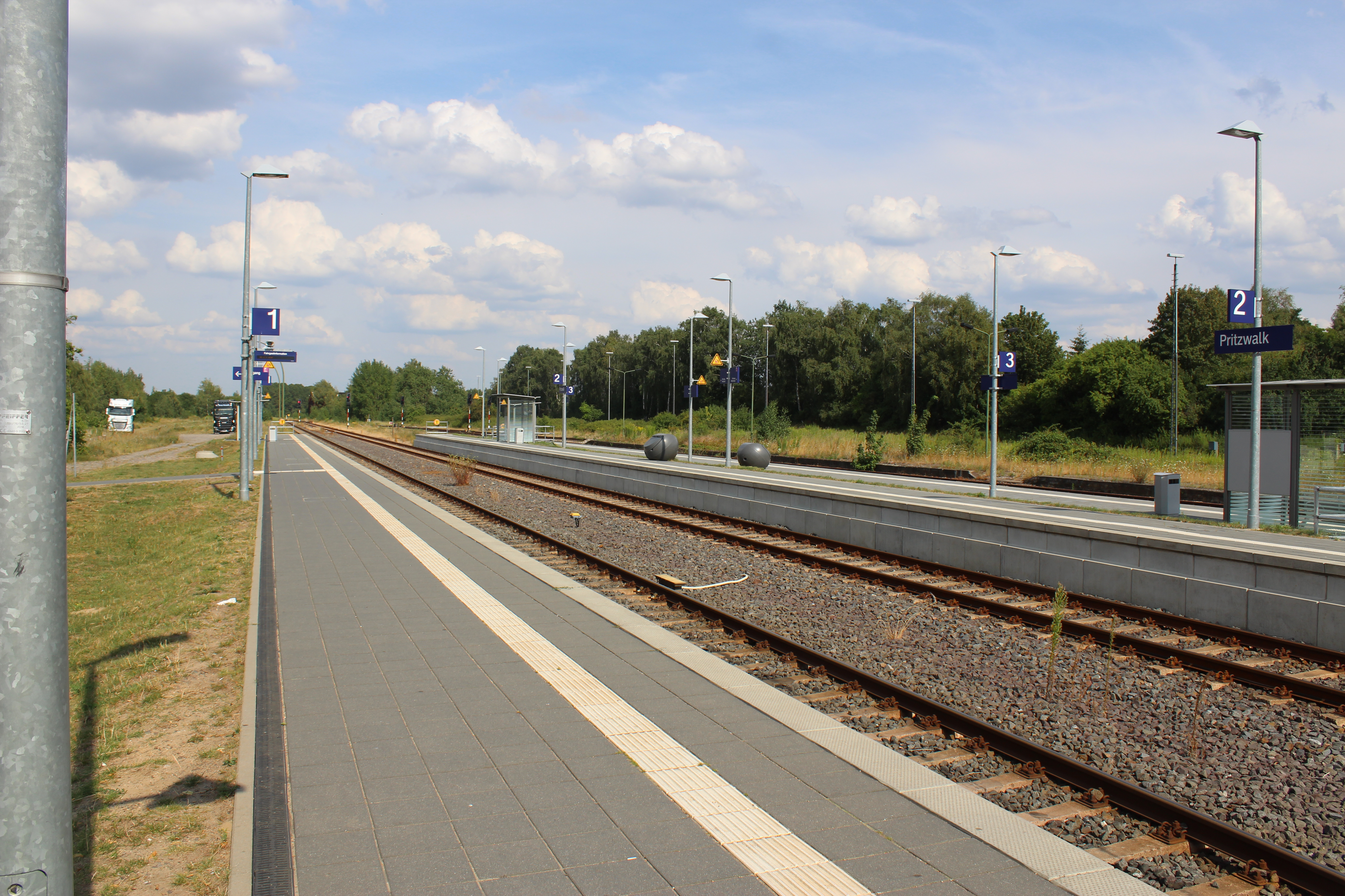 train station Pritzwalk, platforms